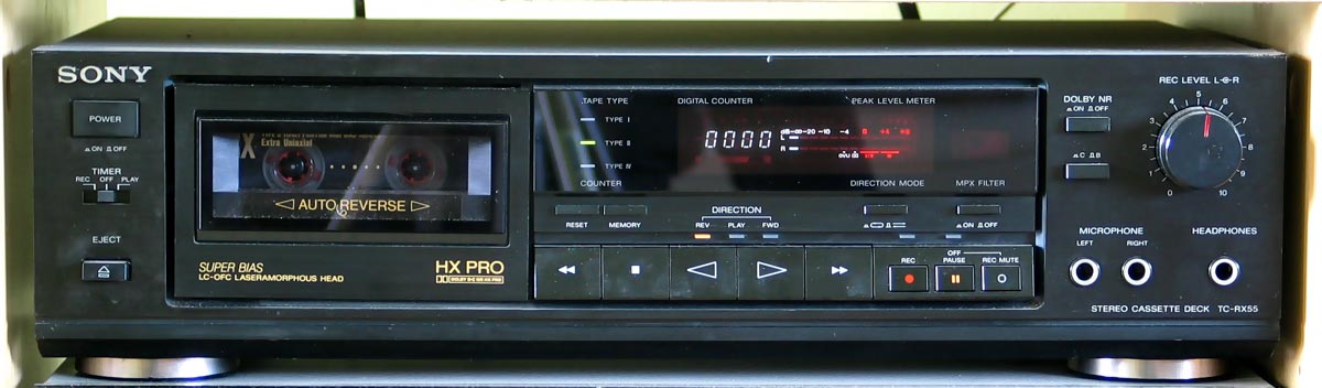 The Sony TC-RX55, a typical front-loading consumer autoreverse hi-fi cassette deck from late 1980s, featuring full electronic transport, Dolby B and C noise reduction, and HXPro dynamic headroom expansion.